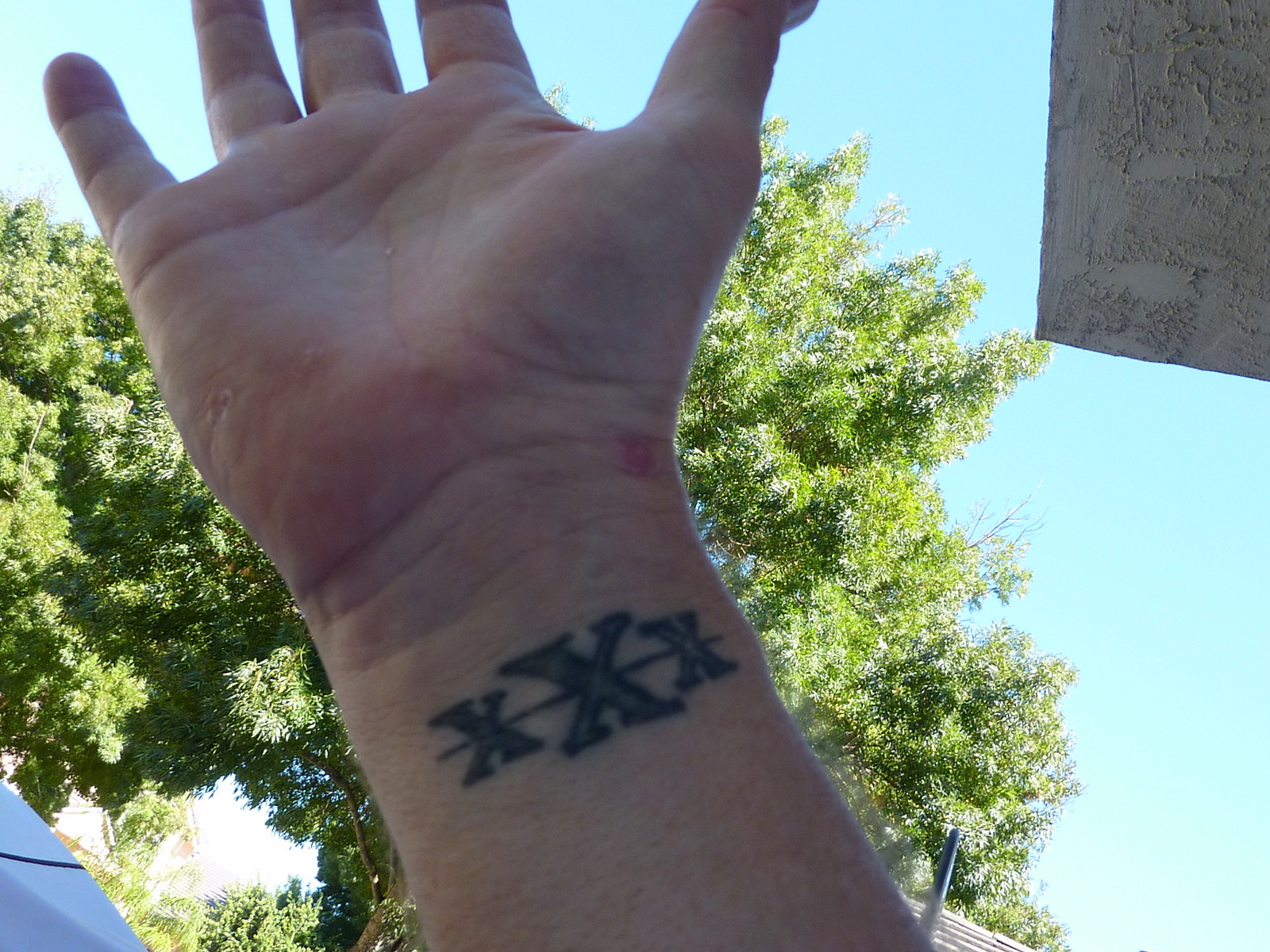 A straight edge tattoo on someone's wrist.